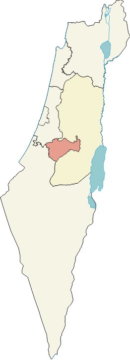 Jerusalem District in Israel.